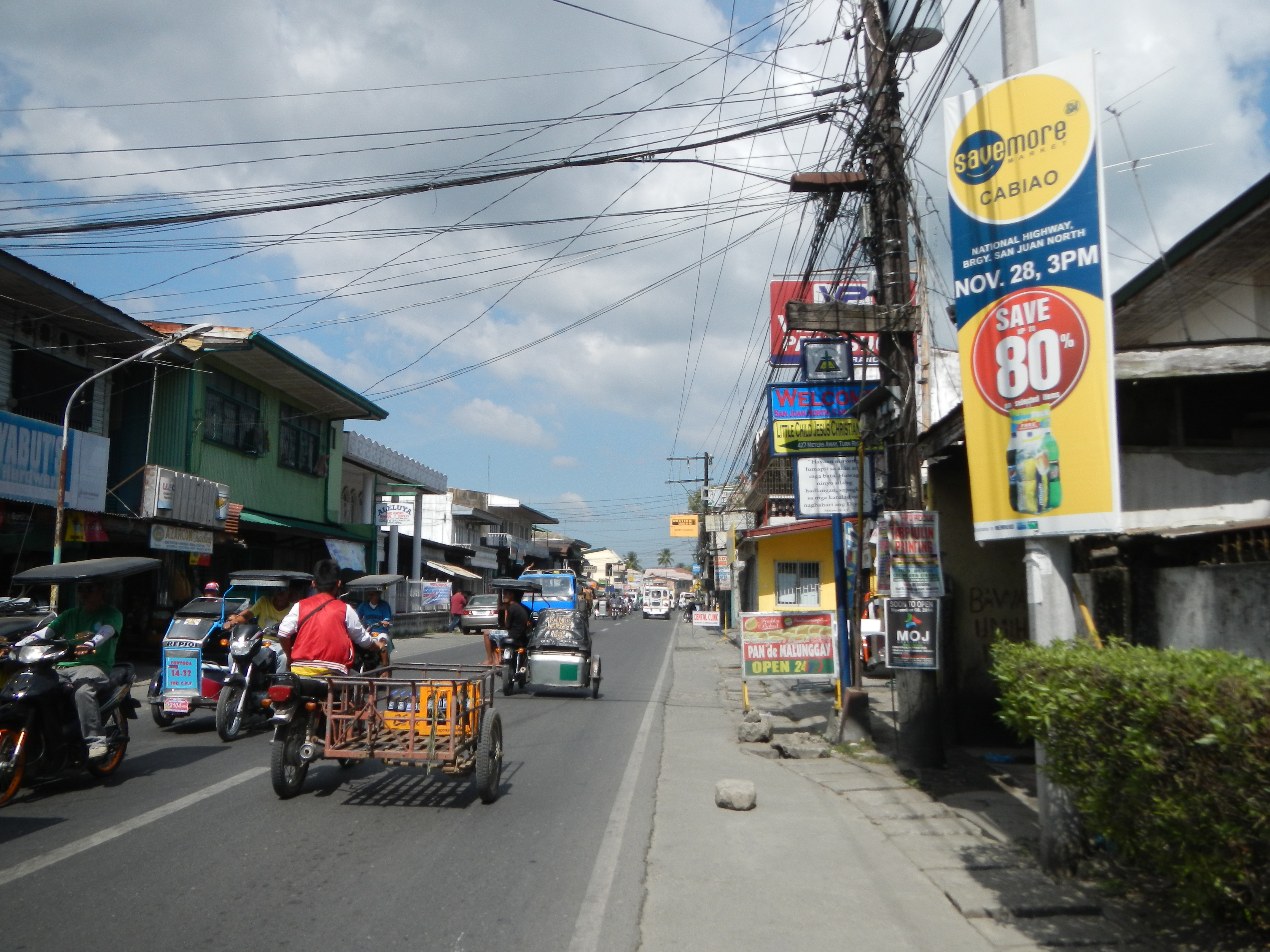 Barangay San Juan North (Poblacion), Cabiao, Nueva Ecija (Barangay Hall, Commercial buildings, Sourth Star Drug, Ministop, Kabyawan Inn and Restaurant, STM RxDrugMart, Minute Burger, Producers Bank, PrimarkSavemore Supermarket, Little Christ Jesus Academy, along the San Fernando-Gapan-Olongapo Road, Highway).